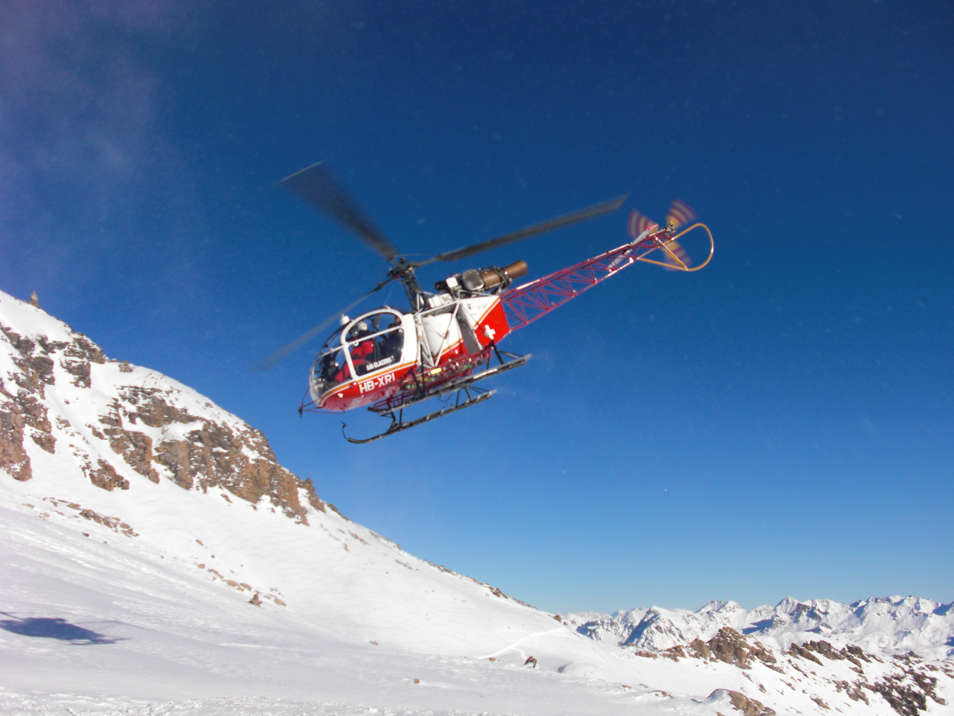 SA-315 B Lama operated by Air Glaciers leaving Cabane Becs de Bosson at 2983m, canton Valais, Switzerland